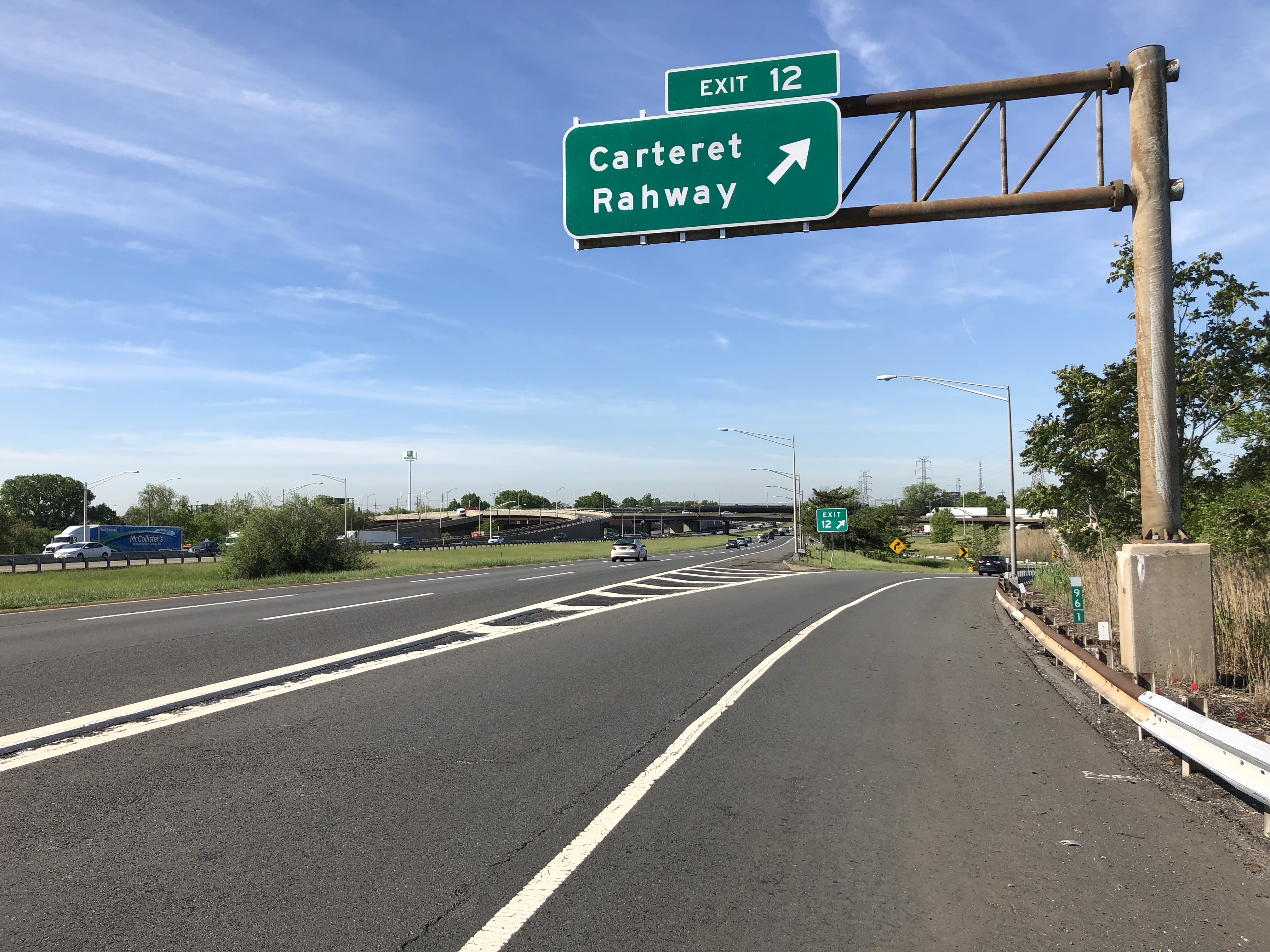 View south along Interstate 95 (New Jersey Turnpike) at Exit 12 (Carteret, Rahway) in Carteret, Middlesex County, New Jersey